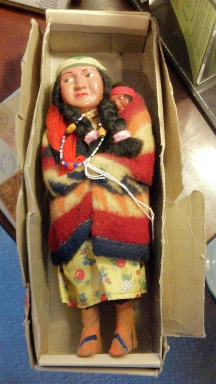 A Skookum doll, in its original, damaged box, in its original box, in an antique shop in Martinez, California. Photo by Jim Heaphy (Cullen328).